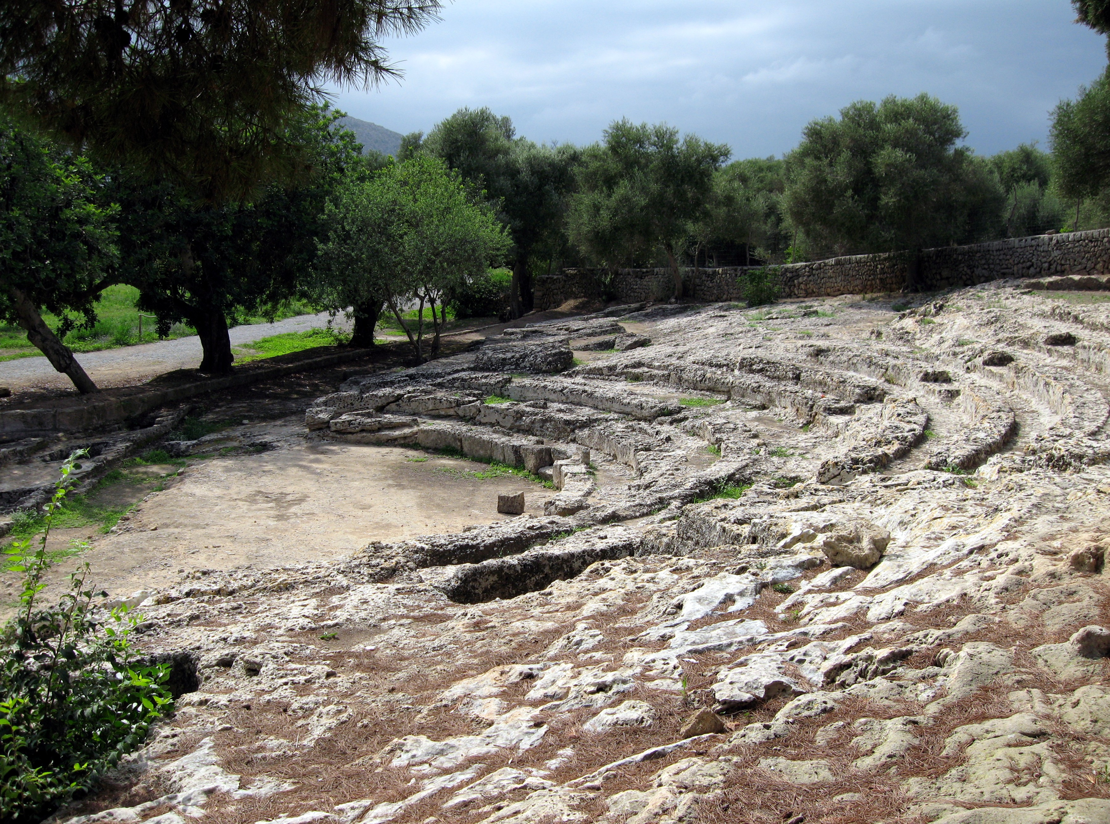 The ruins of the Ancient Roman theatre in Pollentia (Pol·lèntia), Alcúdia, Mallorca, Spain.